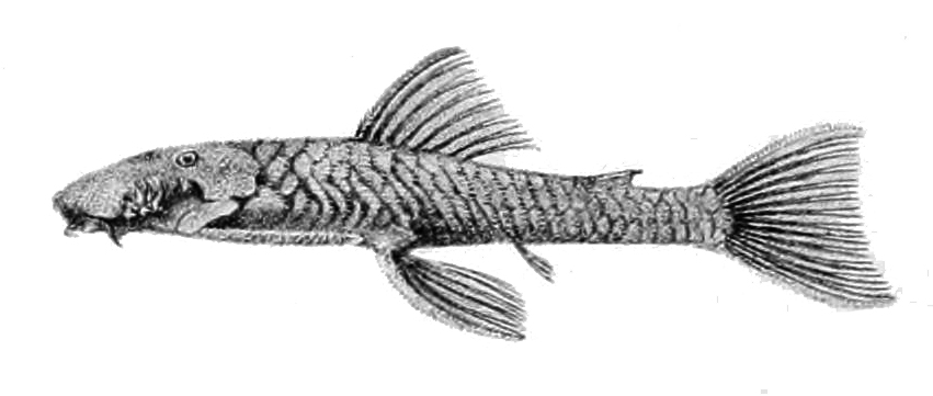 Chaetostomus maculatus Regan, 1904, synonym of Chaetostoma greeni Isbrücker, 2001 according to the Catalogue of Fishes